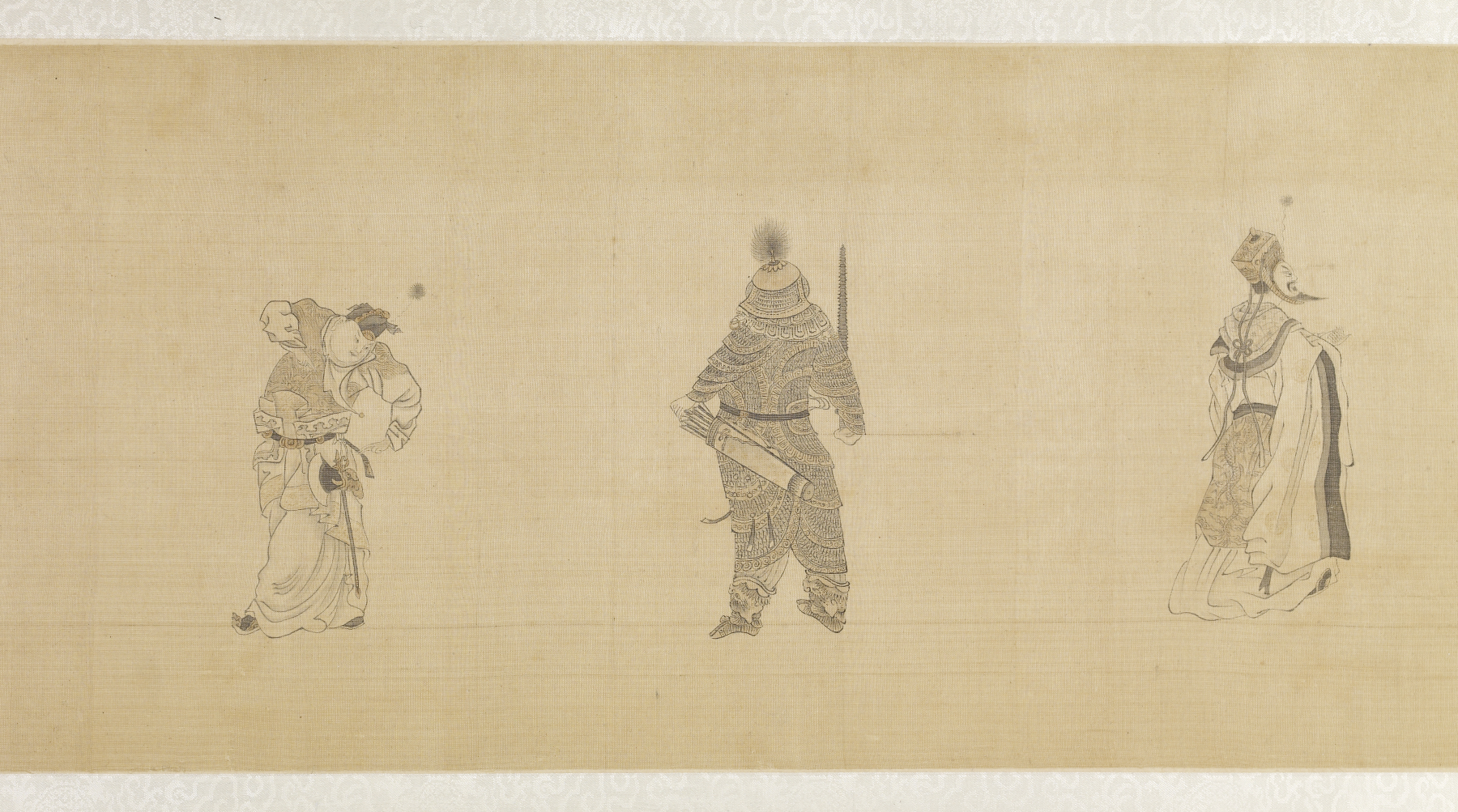 In 1669, a book was published depicting the twenty-four loyal ministers of the second emperor of the Tang [T'ang] Dynasty (reigned 627-49)-the men who helped the emperor consolidate power. The year 1669 was one in which imperial ministers were facing the challenge of bringing order throughout the empire on behalf of Kangxi [K'ang-hsi], second emperor of the Qing [Ch'ing] Dynasty (reigned 1662-1722). Historical records state that portraits of the Tang [T'ang] ministers had been painted on the walls of the Gallery that traverses Smoky Clouds (Lingyengo [Ling-yen-ko]), a building on the palace grounds. This handscroll, by an unknown but immensely skilled painter, reproduces almost exactly the imaginary portraits in the book, which were designed by Lin Yuan, an artist who went to work at the imperial court in the 1670s. (1) Changsun Wuji [Ch'ang-sun Wu-chi] Minister of Education (2) Li Xiaogong [Li Hsiao-kung] Minister of Works (3) Du Ruhui [Tu Ju-hui] Minister of Works Commanader of the Heir Designate (4) Wei Zheng [Wei Cheng] Minister of Works Grand Preceptor of the Heir Designate (5) Fang Xuanling [Fang Hsüan-ling] Minister of Works Duke of the Kingdom of Liang (6) Gao Jian [Kao Chien] Minister of Education (7) Weichi Jingde [Wei-ch'ih Ching-te] Commander Unequaled in Honor (8) Li Jing [Li Ching] Specially Advanced Duke of the Kingdom of Wei (9) Xiao Yu [Hsiao Yu] Specially Advanced Duke of the Kingdom of Sung (10) Yuan Jixuan [Yüan Chi-hsüan] Grand Bulwark General of the State